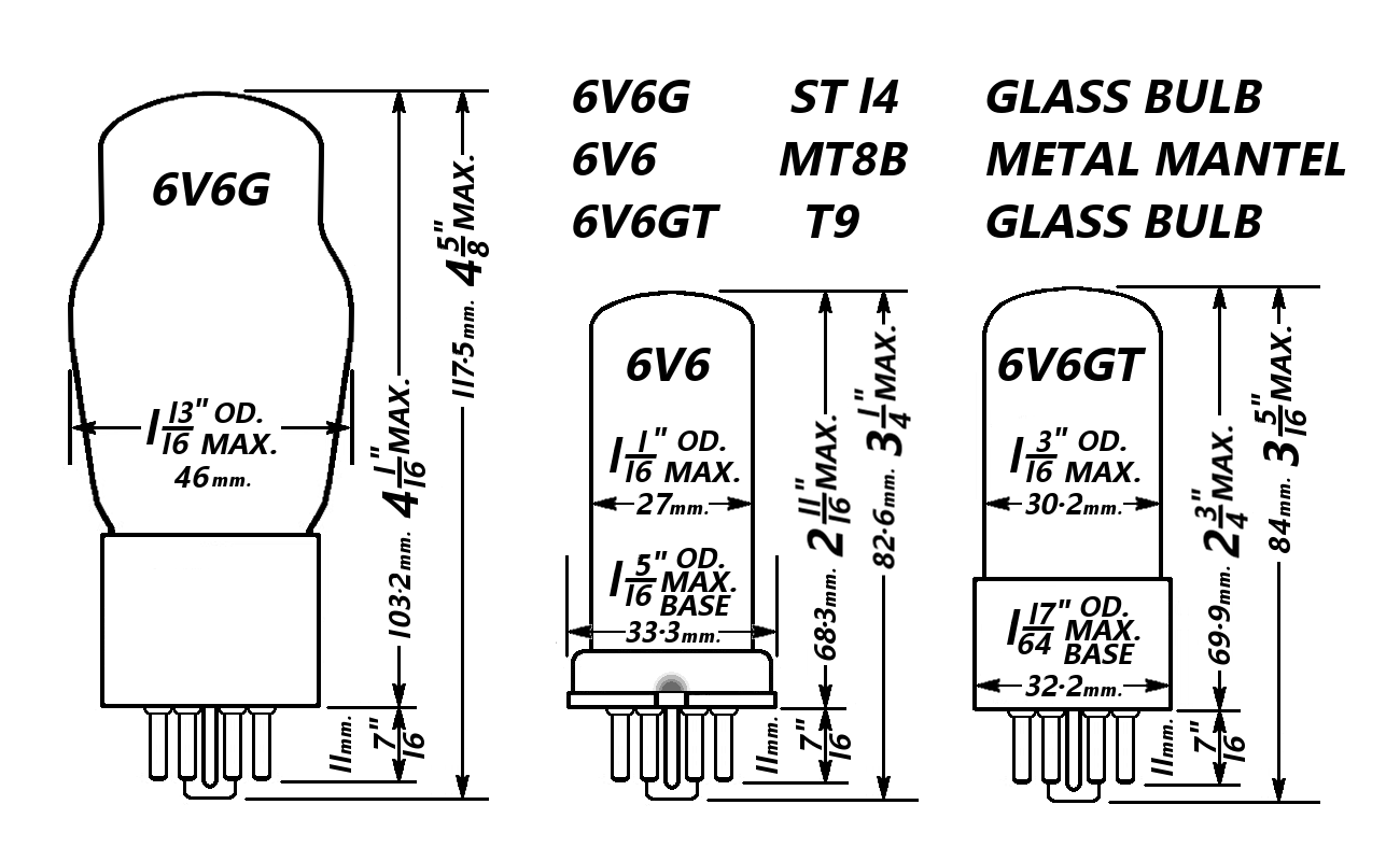 technical measurements of vacuum tubes